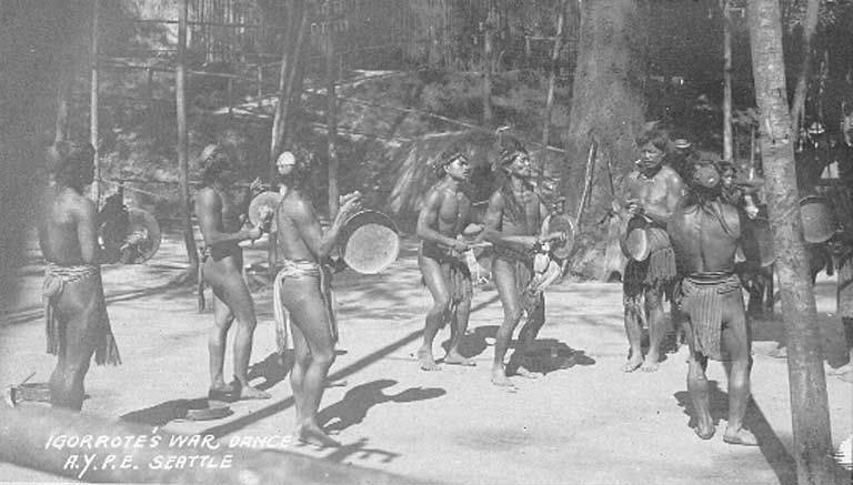 Caption on image: Igorrote's War Dance. A.Y.P.E. Seattle. PH Coll 777 Warner.1018 Subjects (LCTGM): Ceremonial dancers--Washington (State)--Seattle; Men--Washington (State)--Seattle; Drums--Washington (State)--Seattle; Alaska-Yukon-Pacific Exposition (1909 : Seattle, Wash.)--People--Washington (State)--Seattle Subjects (LCSH): Igorot (Philippine people)--Washington (State)--Seattle